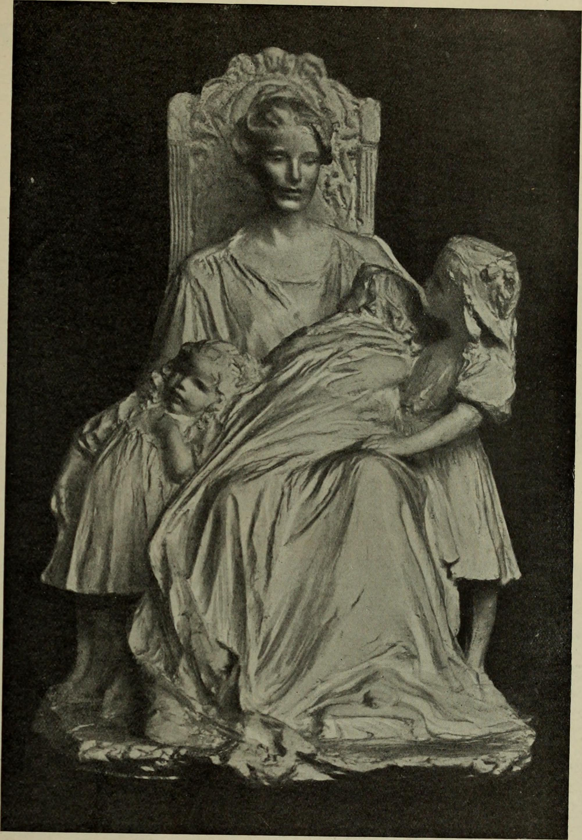 ENTHRONED Title: International studio Year: 1897 (1890s) Authors: Subjects: Art Decoration and ornament Publisher: New York Text Appearing Before Image: A SKETCH BY BESSIE POTTER VONNOH Text Appearing After Image: ENTHRONED BY BESSIE POTTER VOXNOH